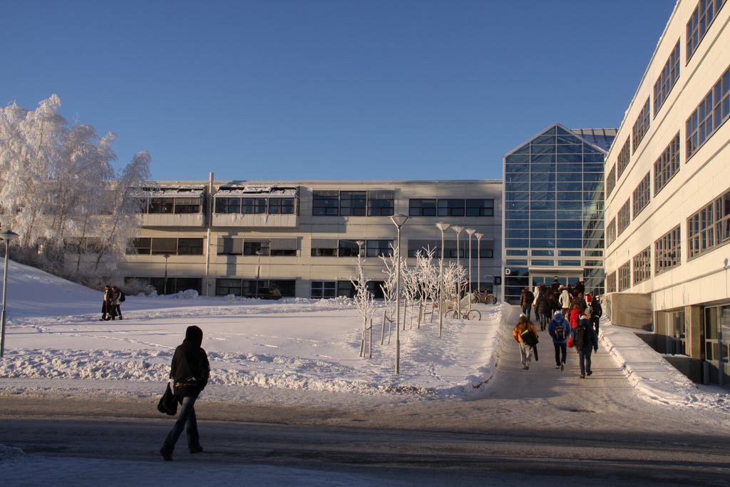 The Dragvoll Library i situated at the upper floor of the buildings in front and to the right.